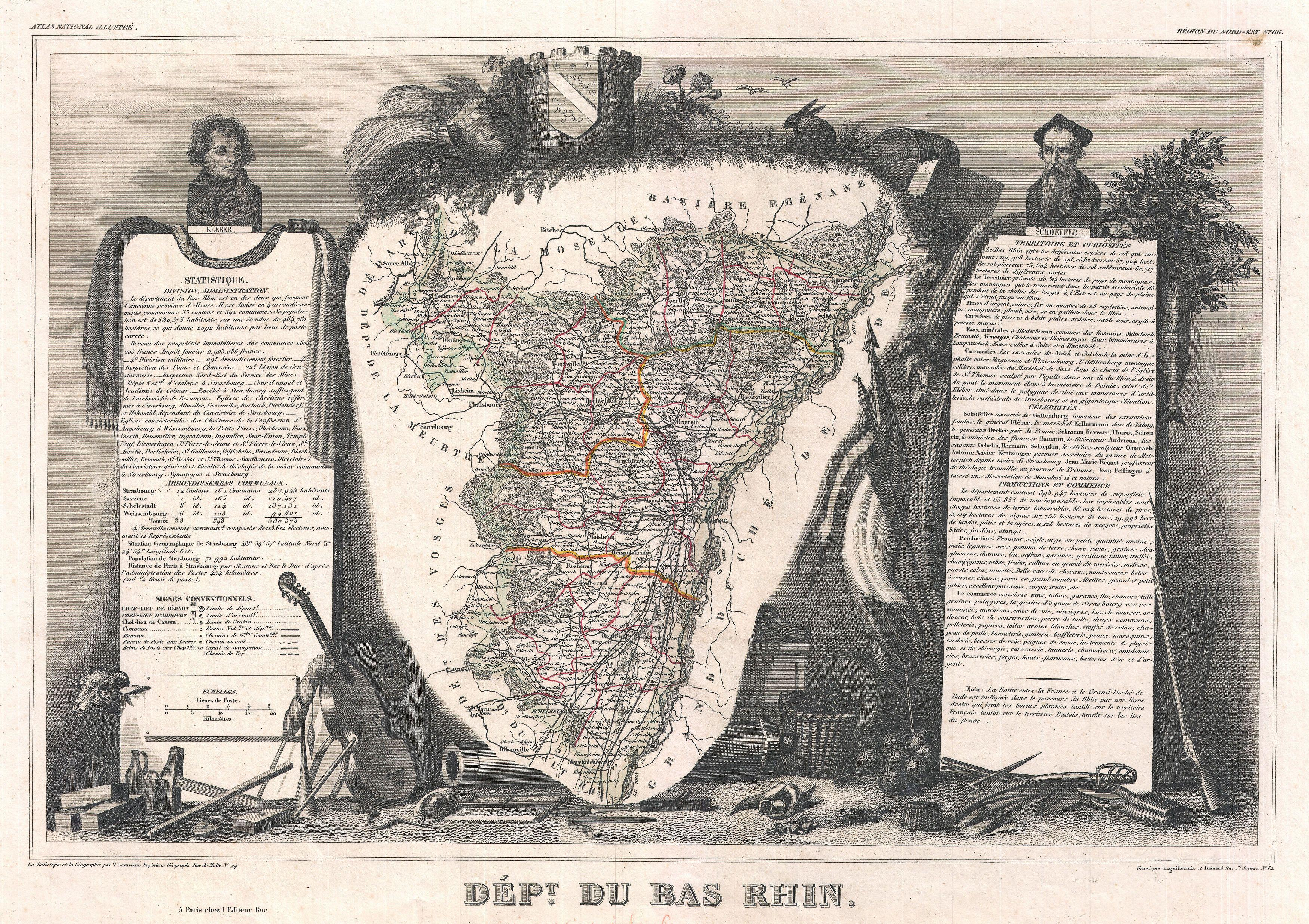 This is a fascinating 1852 map of the French department of Bas-Rhin, France. Part of the Alsace wine region surrounding Strasbourg. This mountainous area on the west bank of the Rhine River is known for producing Munster cheese. The map proper is surrounded by elaborate decorative engravings designed to illustrate both the natural beauty and trade richness of the land. There is a short textual history of the regions depicted on both the left and right sides of the map. Published by V. Levasseur in the 1852 edition of his Atlas National de la France Illustree.